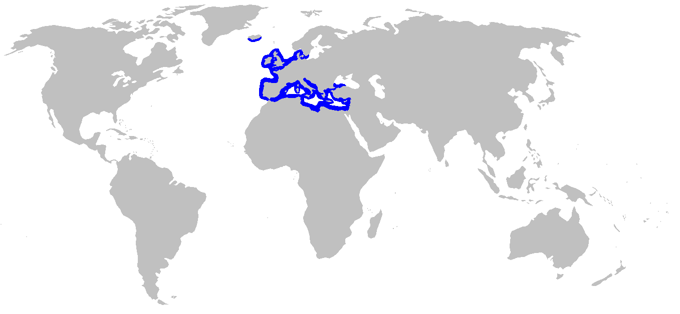 Range map for Buglossidium luteum, based on Fishes of the North-eastern Atlantic and the Mediterranean (1986).